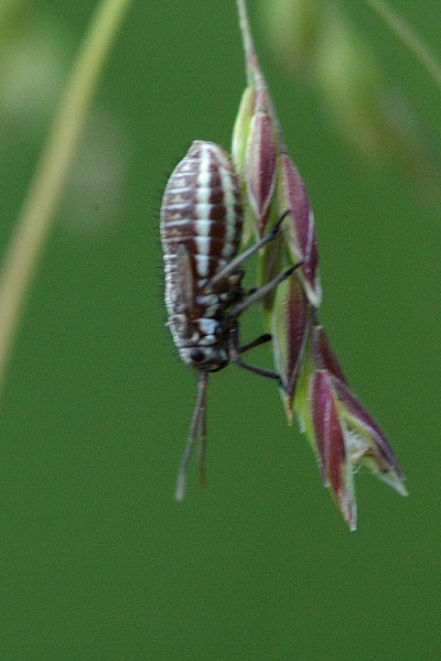 Picture taken in Commanster, Belgian High Ardennes . Species: Horistus orientalis nymph